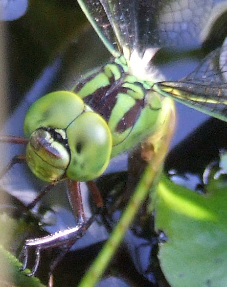 Green Hawker (Aeshna viridis), female, head and thorax detail, Kirchwerder, Hamburg, Germany